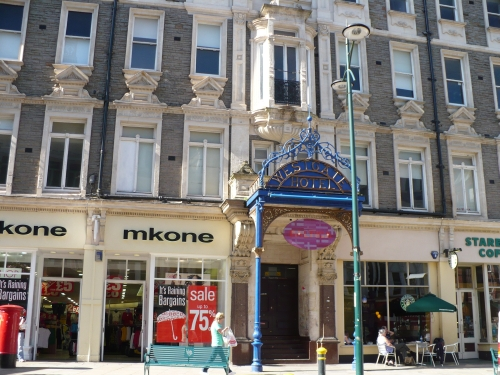 Westgate Hotel Entrance It was from the Westgate Hotel that soldiers fired on the Chartists in 1839 killing over twenty. No longer a hotel it has been refurbished to create retail outlets. For information on the Chartist march on Newport